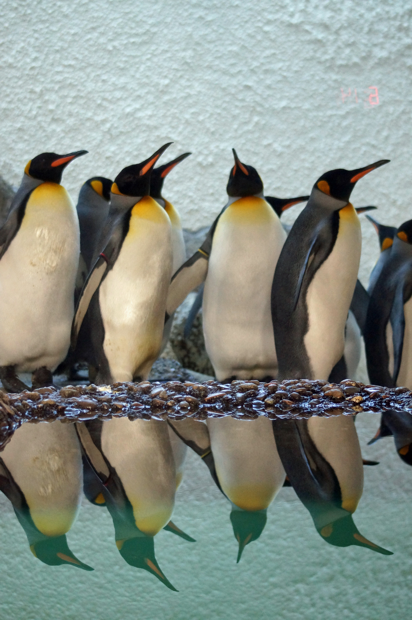 King Penguins at Zoo Zurich